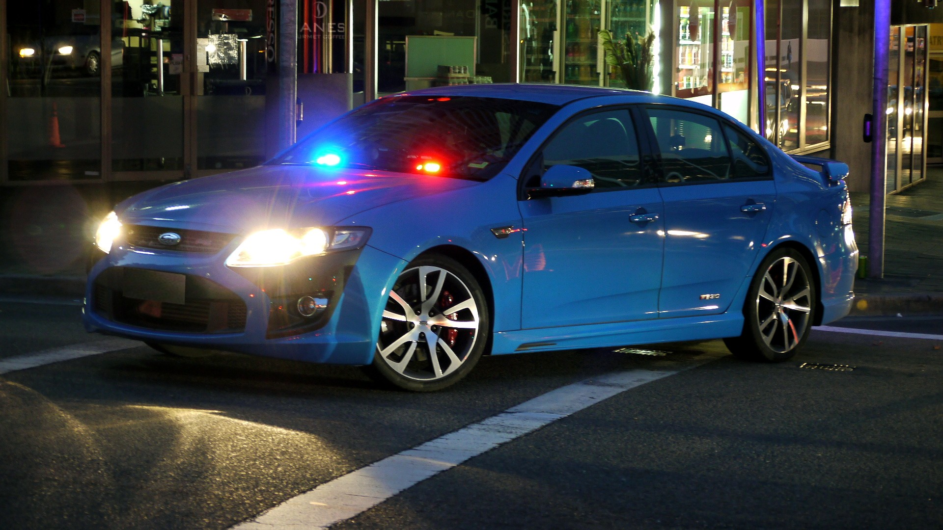 Traffic 218 F6 Typhoon